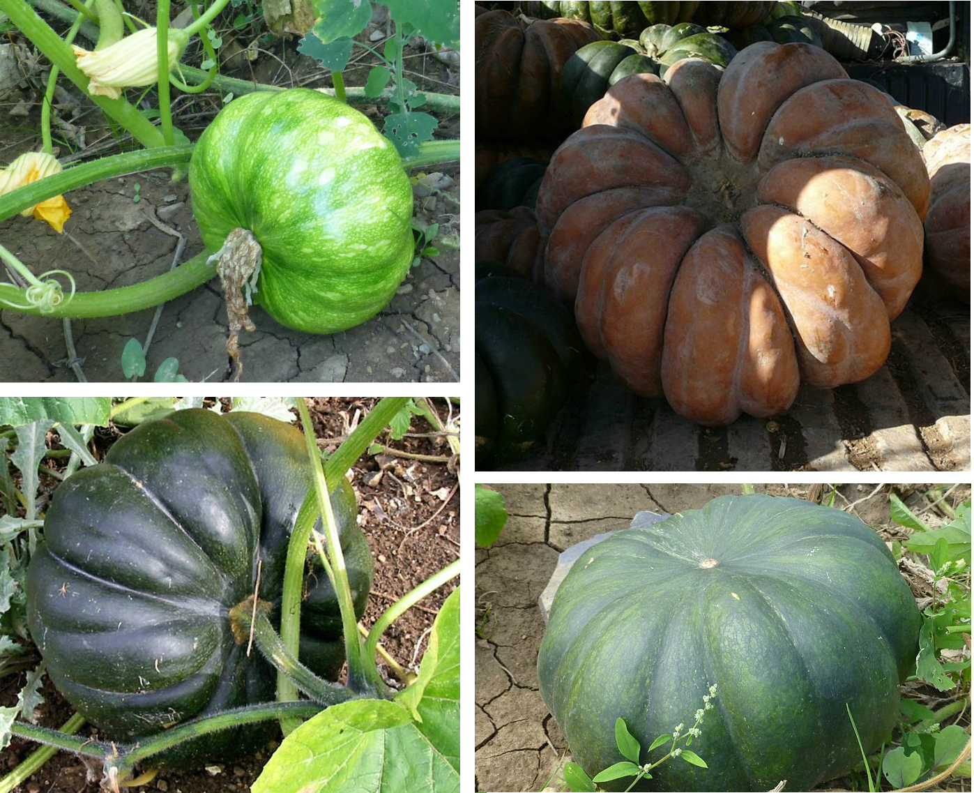 Cucurbita moschata landrace Musquée de Provence (French), Moscata di Provenza (Italian), Moscada de Provenza (Spanish).